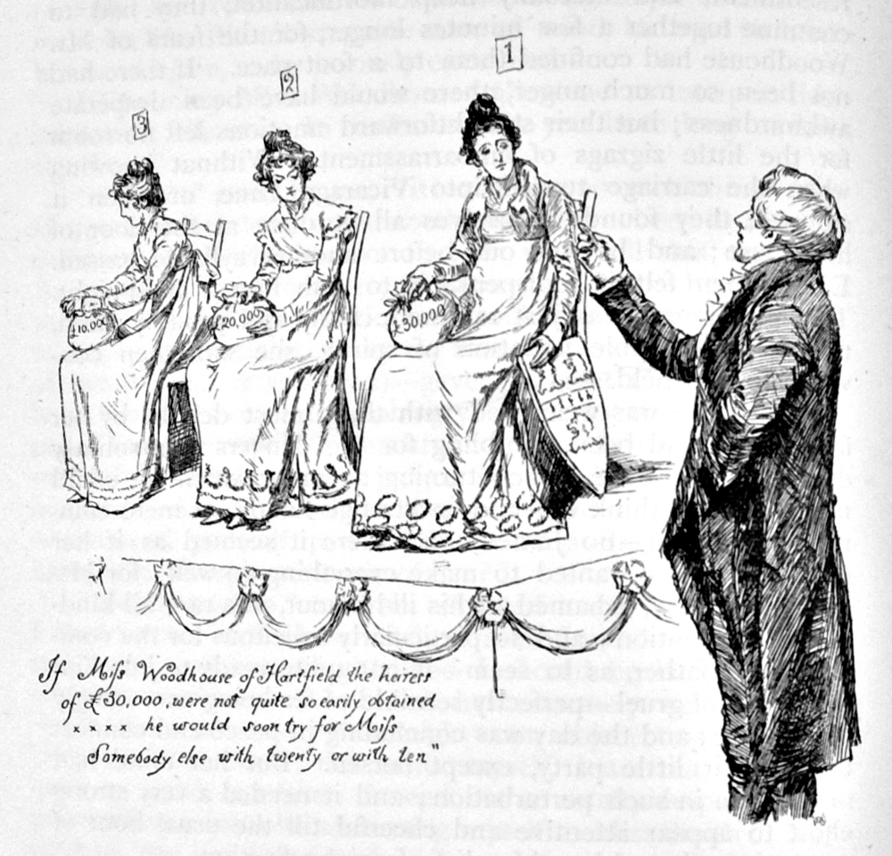 "If Miss Woodhouse of Hartfield the heiress of £30,000, were not quite so easily obtained...he would soon try for Miss Somebody else with twenty or with ten" - Mr. Elton on his marriage prospects. Austen, Jane. Emma. London: George Allen, 1898, page 138.